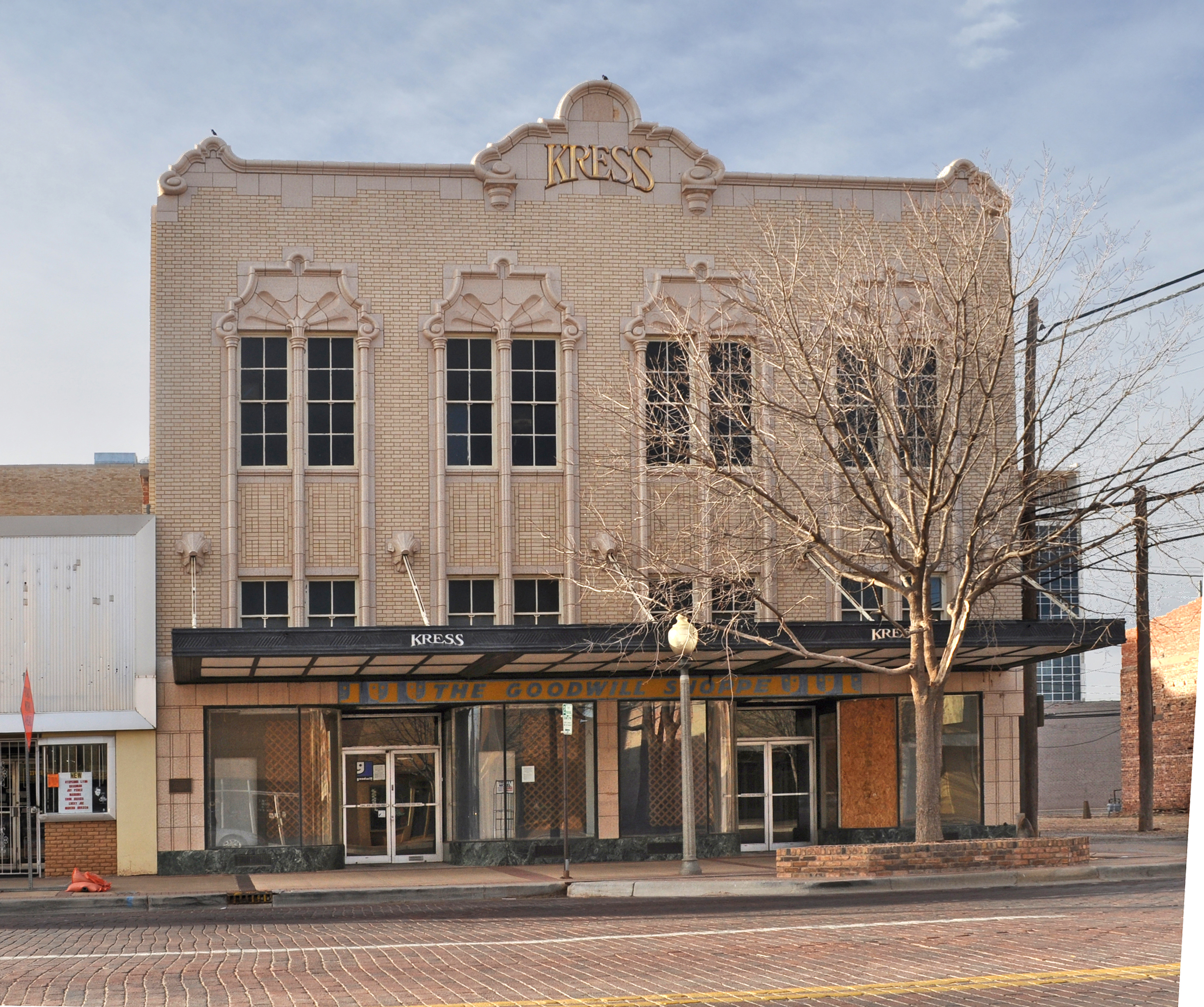 The Kress Building in downtown Lubbock, Texas.